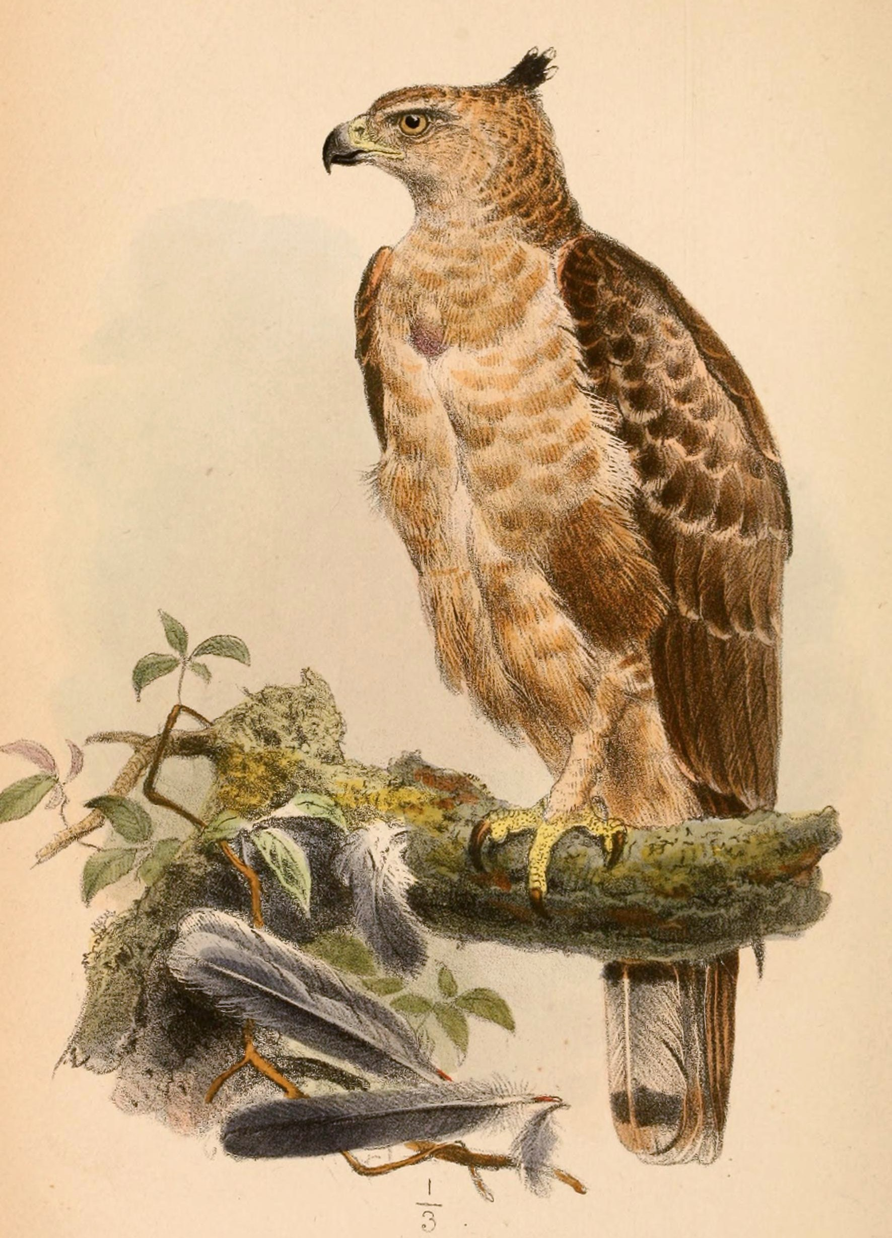 « Spizaetus nanus » = Nisaetus nanus nanus (Subspecies of Wallace's Hawk-Eagle)